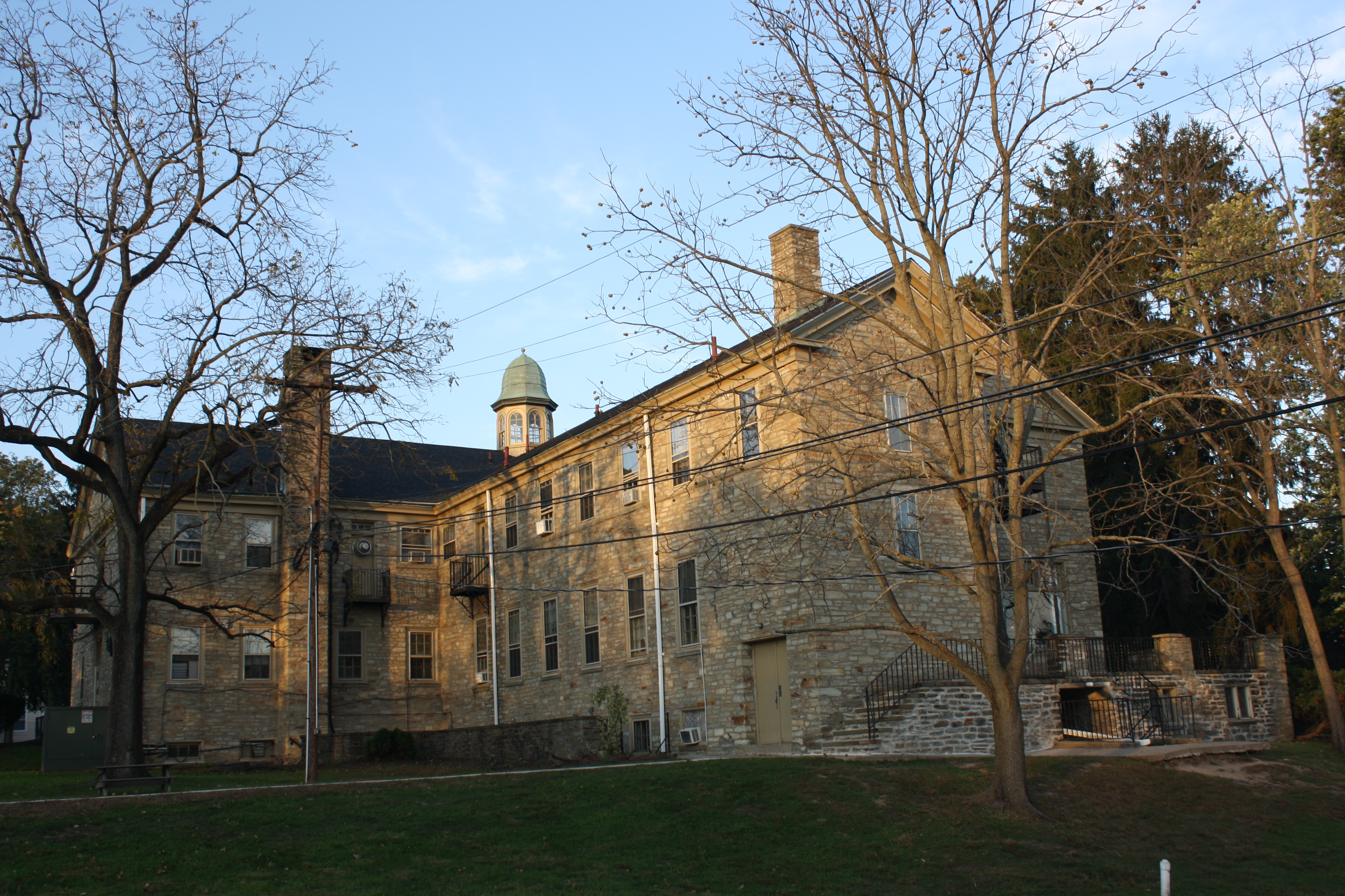 Tabor Home for Needy and Destitute Children, also known as the Fretz Mansion. This large brownstone Victorian mansion built by Philip H. Fretz in 1879. Object location40° 17′ 32″ N, 75° 07′ 47″ W